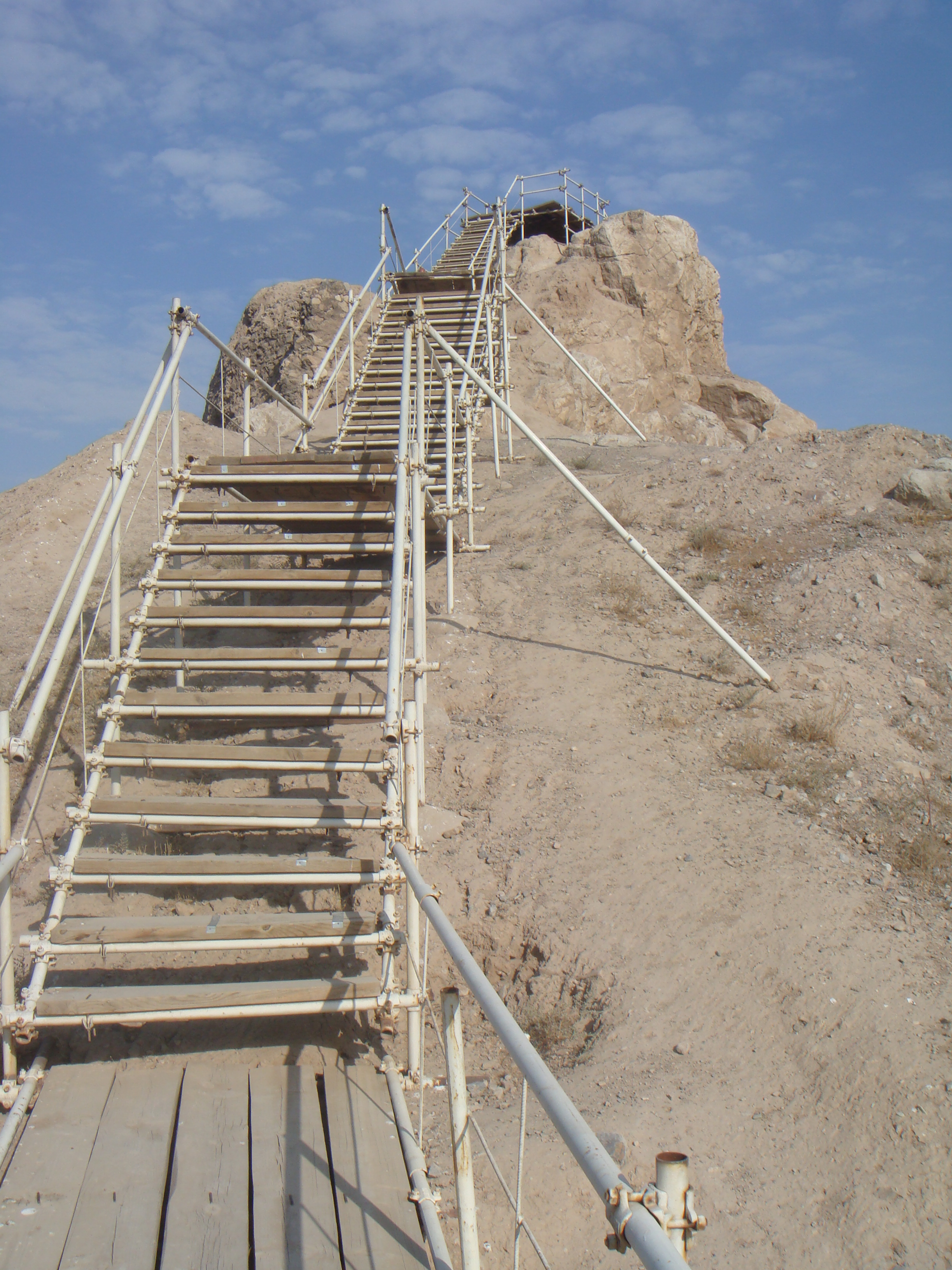 Top of Fort Rashkan